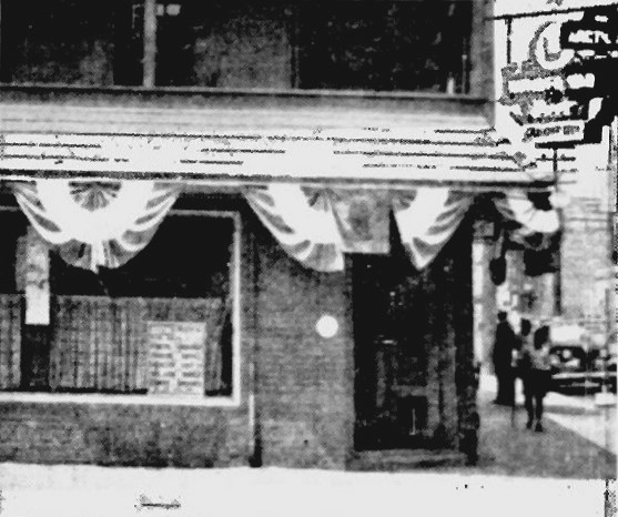 Photo of the Wonder Bar in Atlantic City from a 1940 issue of the Baltimore Afro American. A renewal search was done in periodicals for the years 1967 and 1968. There were no listings for the title The Afro American; there's no evidence of copyright for the newspaper.